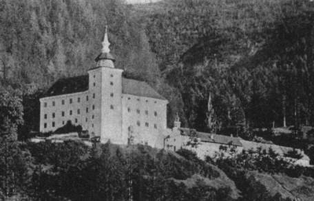 Seisenburg as of 1900. The building was a ruin since the 1950s; it is almost vanished today.